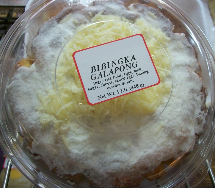 Dessert from the Philippines entitled Bibingka Galapong. Ingredients: rice four, eggs, milk, sugar, cheese, salted eggs, baking powder, salt